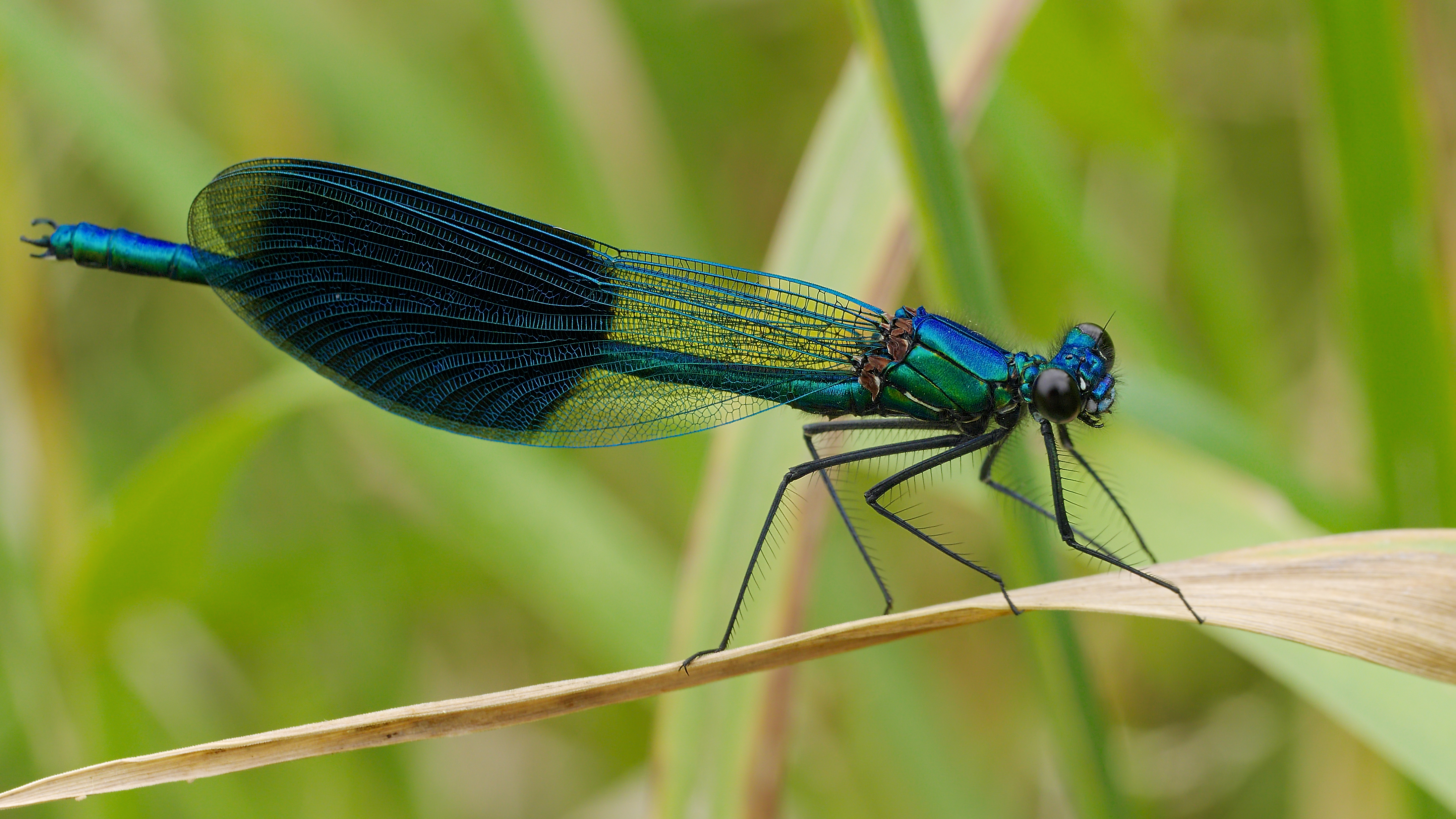 Banded demoiselle - Calopteryx splendens, male. Taken in Ladenburg by the Kanzelbach, Baden-Württemberg, Germany.